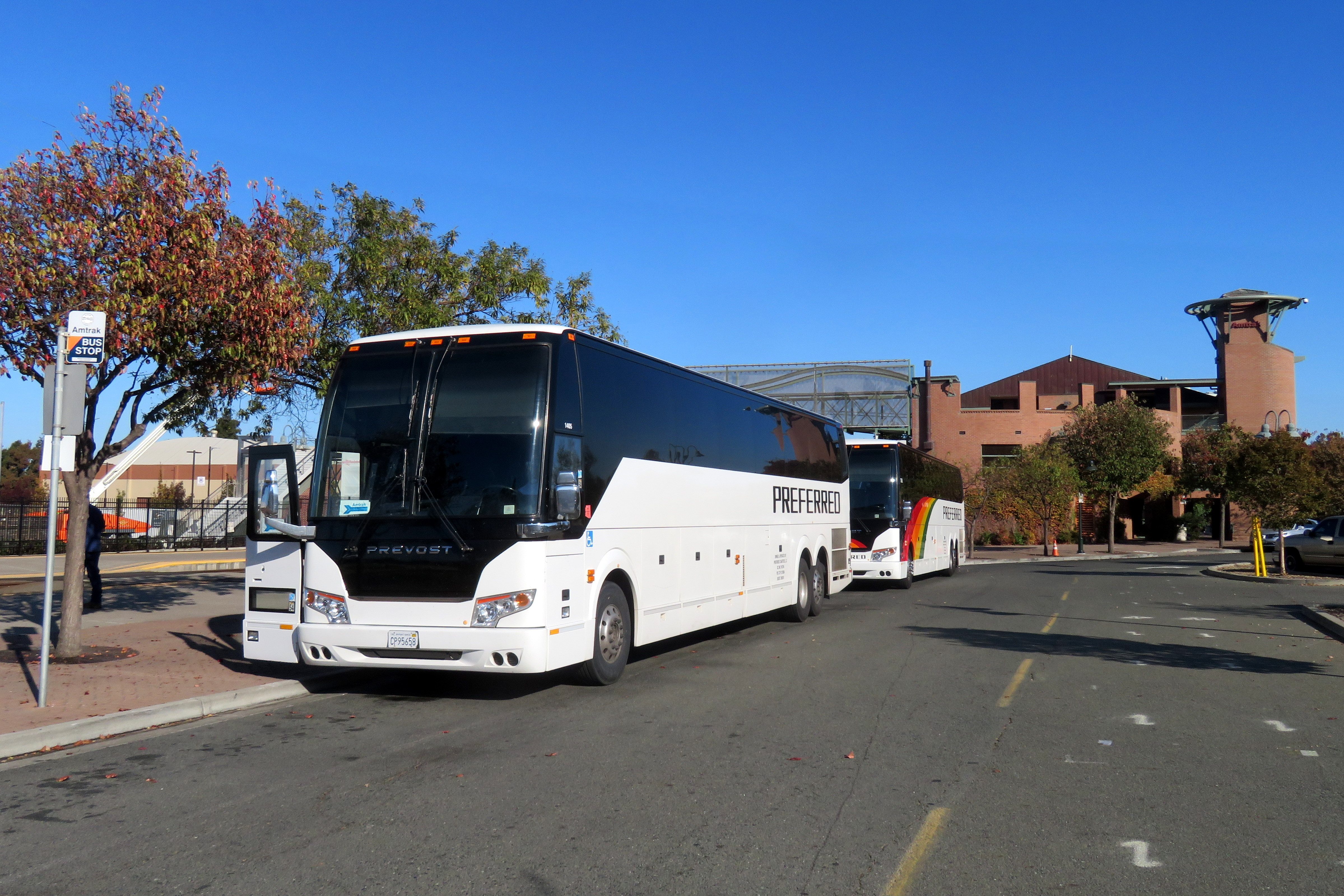 Amtrak Thruway Motorcoach buses at Martinez station in November 2019. One bus will head to Napa via Vallejo, and the other to Arcata via Santa Rosa.